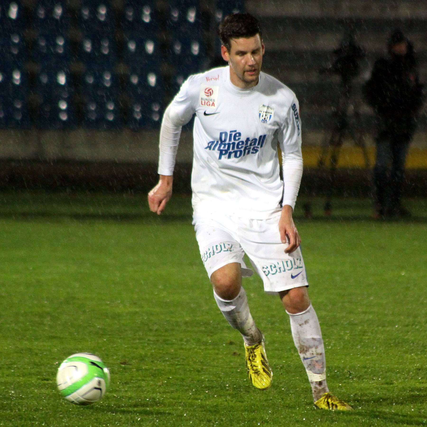 Austrian Football Bundesliga: SC Wiener Neustadt vs. SV Grödig (0:2) at 2013-11-23 in the Stadion Wiener Neustadt. – The photo shows Maximilian Karner (SV Grödig).